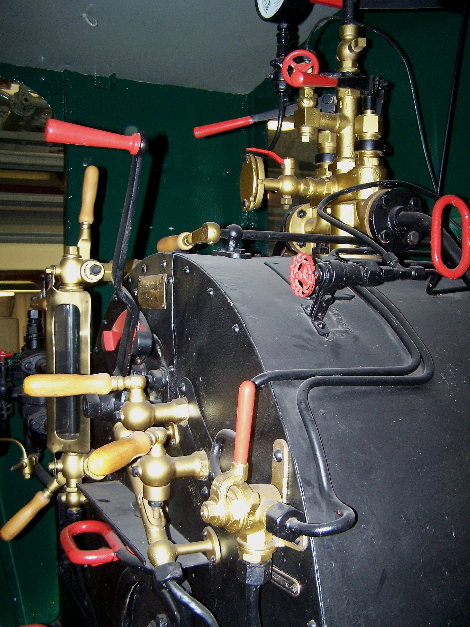 driver's cabin of Hagans Bn2t-steam locomotive No. 2 "Hohemark" at the Verkehrsmuseum Frankfurt am Main in Frankfurt]-Schwanheim